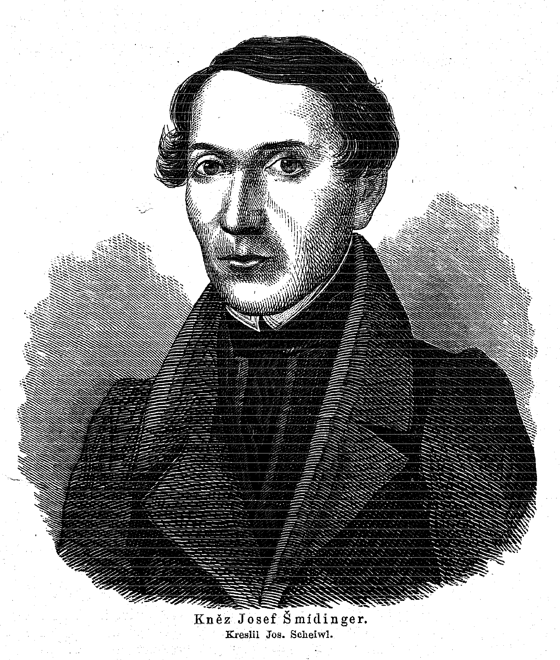 Portrait of Josef Šmidinger (1801 - 1851), patriotic priest from South Bohemia.